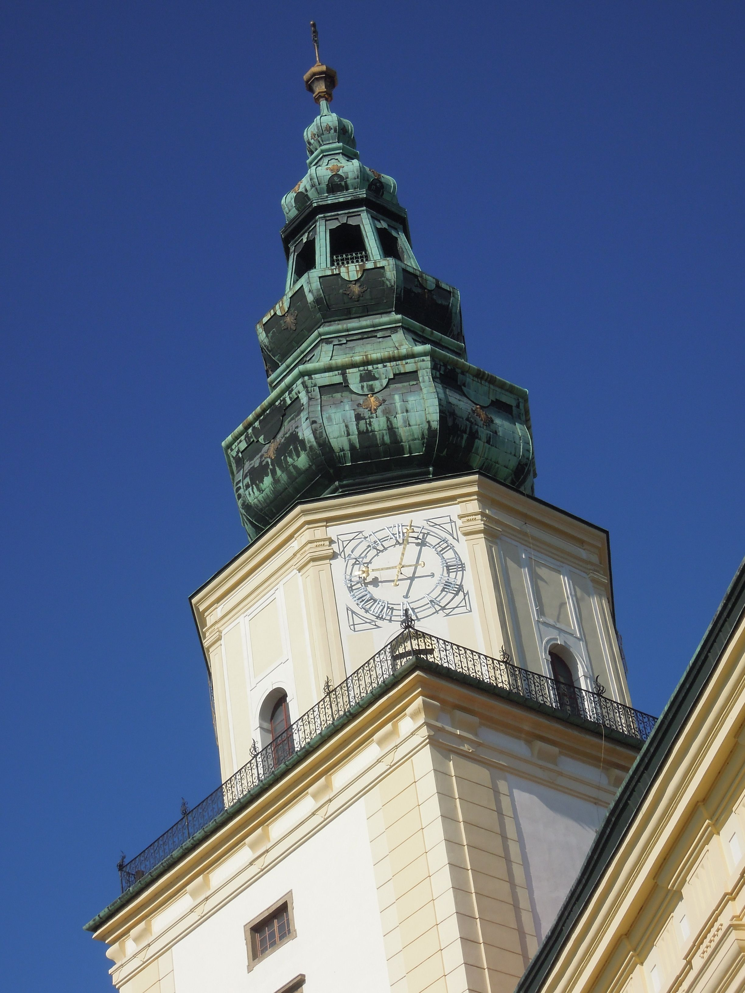 Archbishop's Château in Kroměříž, Kroměříž District, Zlín Region, Czech Republic